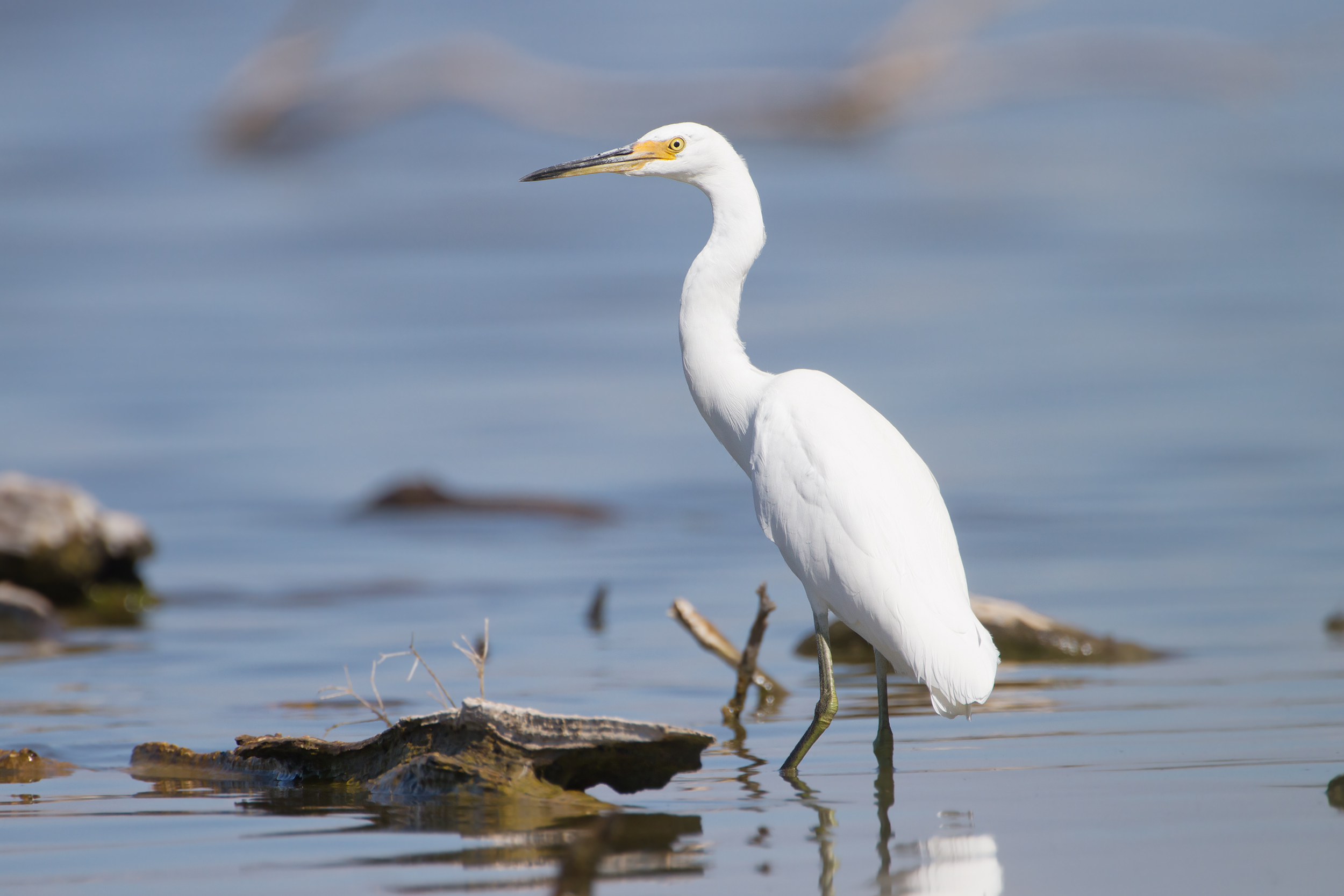 Little Egret (Mesophoyx garzetta), Lake Joondalup, Perth, Western Australia, Australia